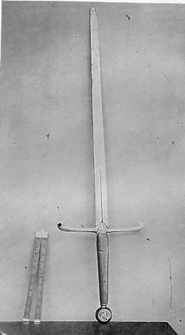 A photo of the Sword of State of the Isle of Man. This photo from Records of the Tynwald & Saint John's chapels in the Isle of Man, published in 1871.